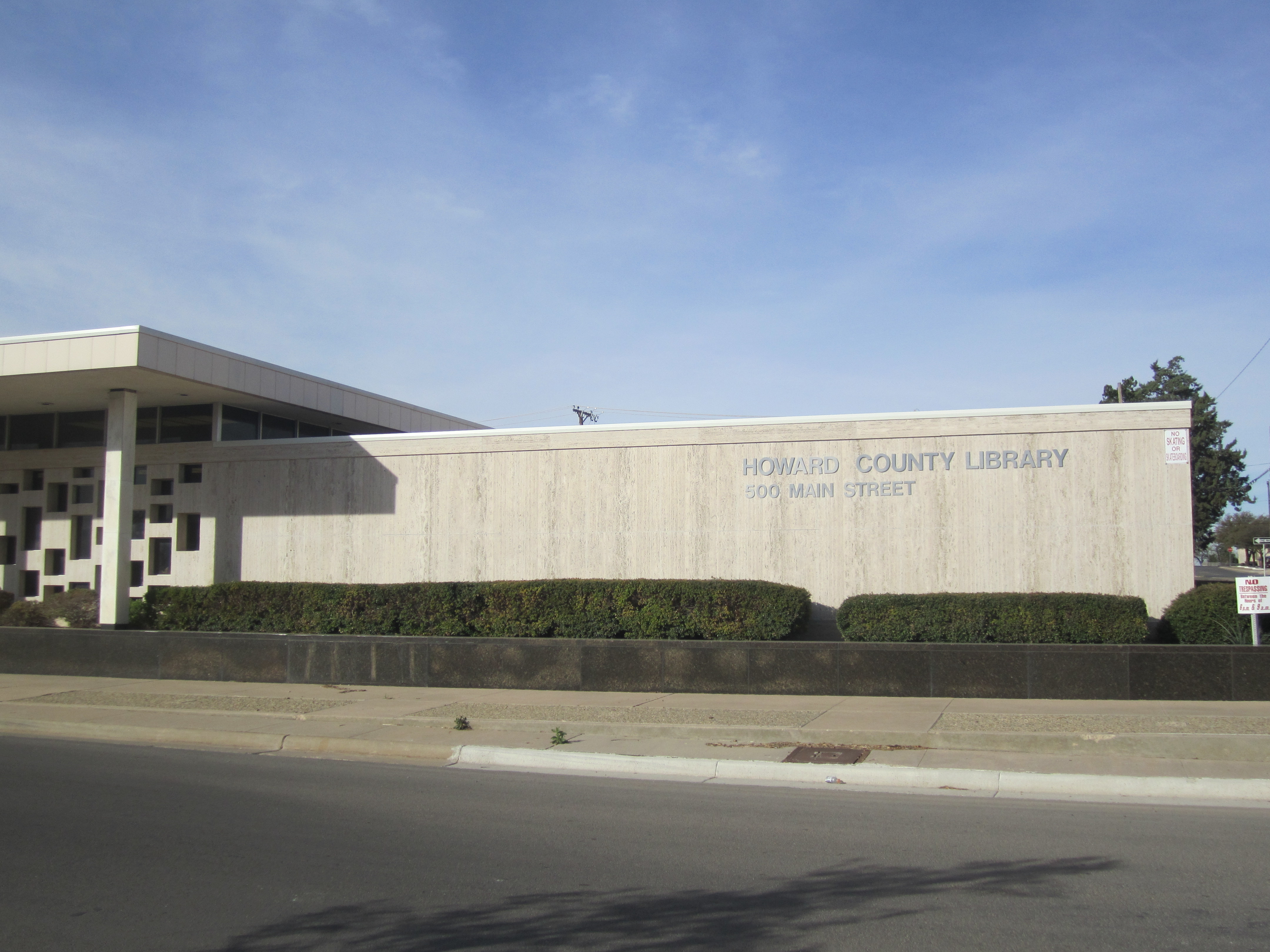 I took photo with Canon camera in Big Spring, TX.